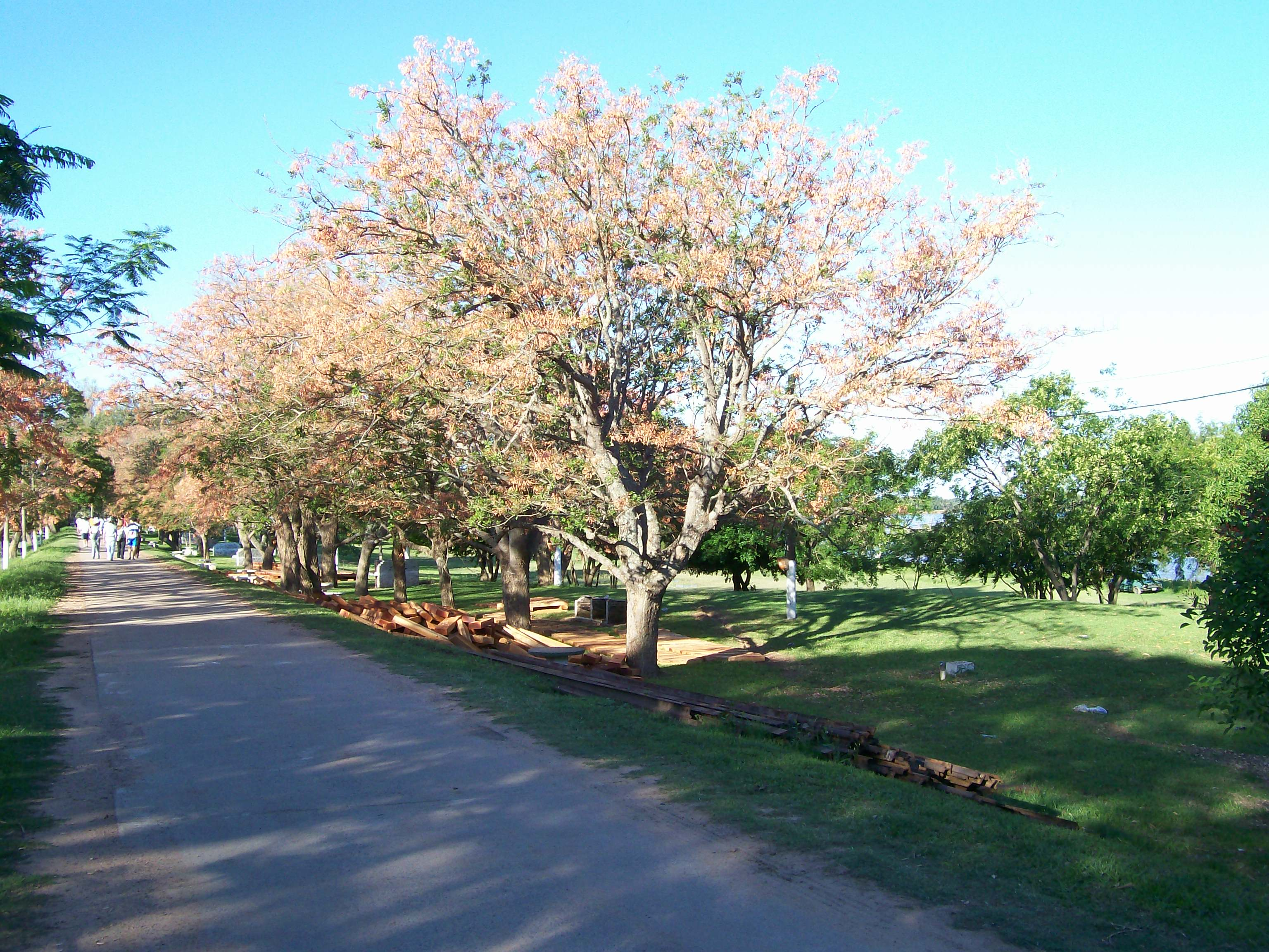 Road in Isla del Cerrito town that goes to North Cape, Paraná River is on the right side.